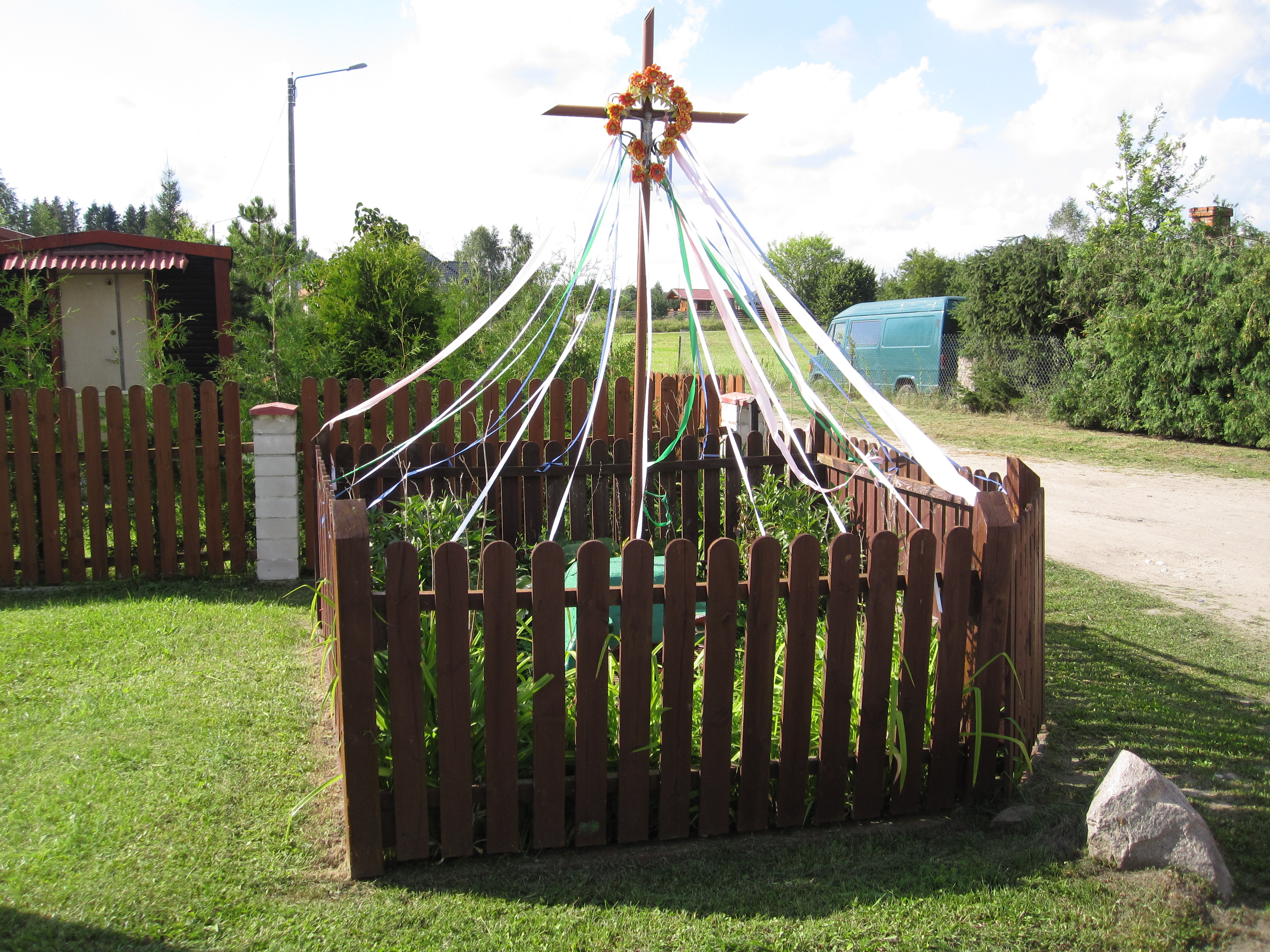 Michałki - wayside crucifix